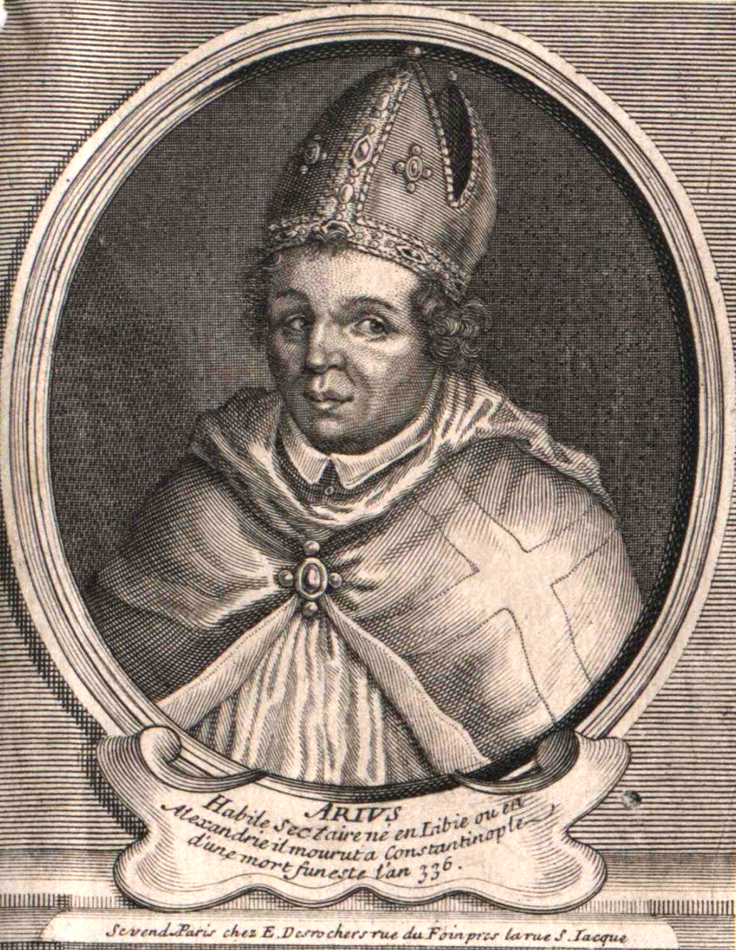 Arius Geistlicher, Porträt, Reformator, Theologie